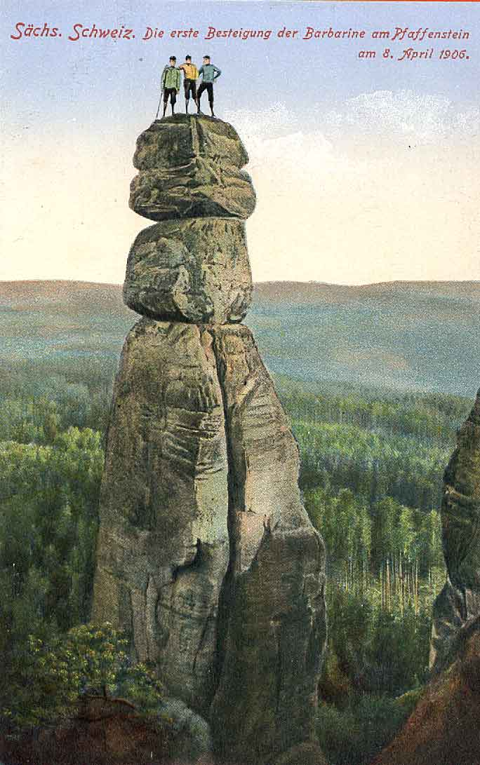 First climbing of the Barbarine, Pfaffenstein, at 8. April 1906 (notice the wrong date: the first climbing was at 19. September 1905!)